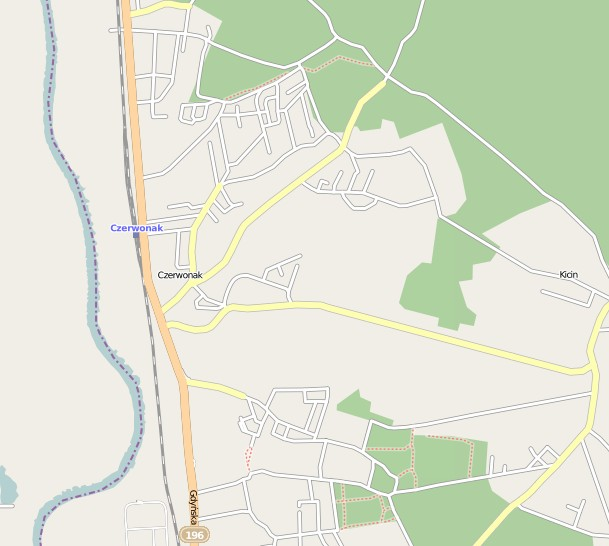 This map of Czerwonak, Poznań, Polska was created from OpenStreetMap project data, collected by the community. This map may be incomplete, and may contain errors. Don't rely solely on it for navigation.